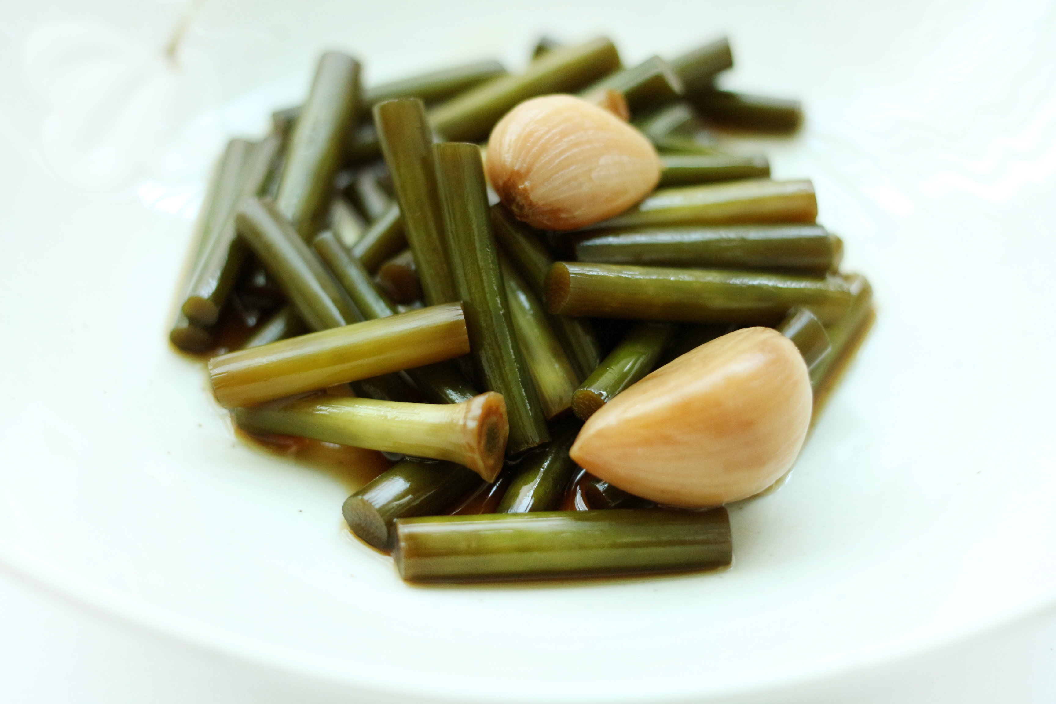 Maneuljjongjangajji (pickled garlic scapes)